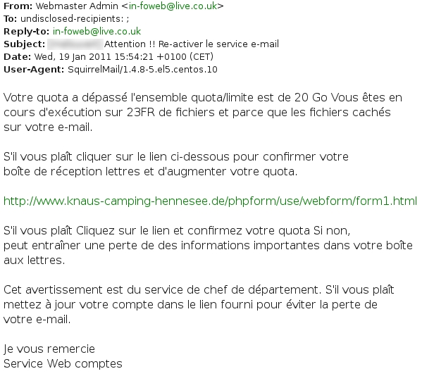 French email account phishing attempt.